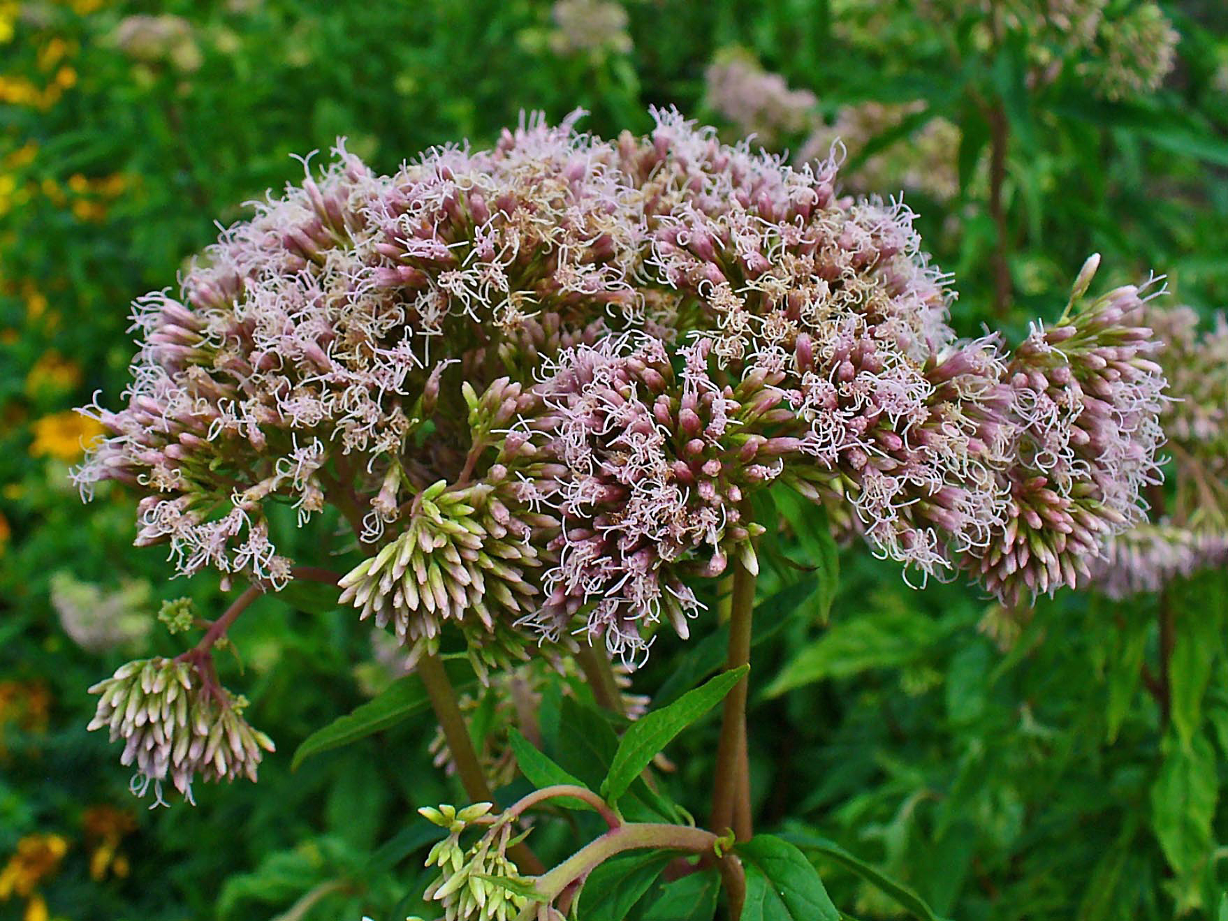 Eupatorium cannabium, Asteraceae, Hemp-Agrimony, inflorescences. The blooming plant is used in homeopathy as remedy: Eupatorium cannabium (Eup-c.)